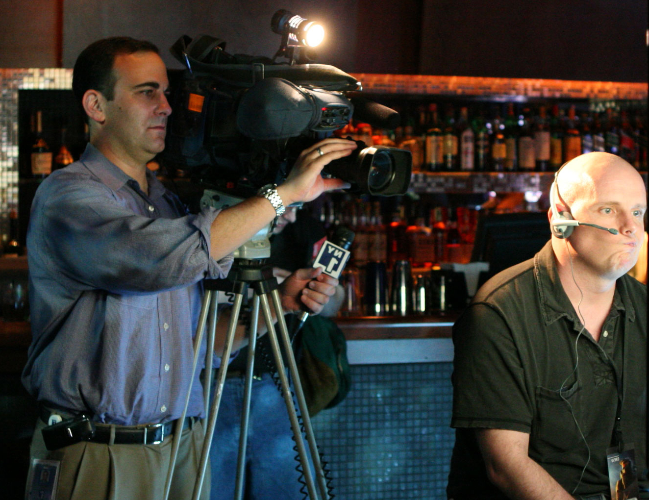 Former Bungie employee Frank O'Connor, cropped from free picture: At the Halo 3 beta event.